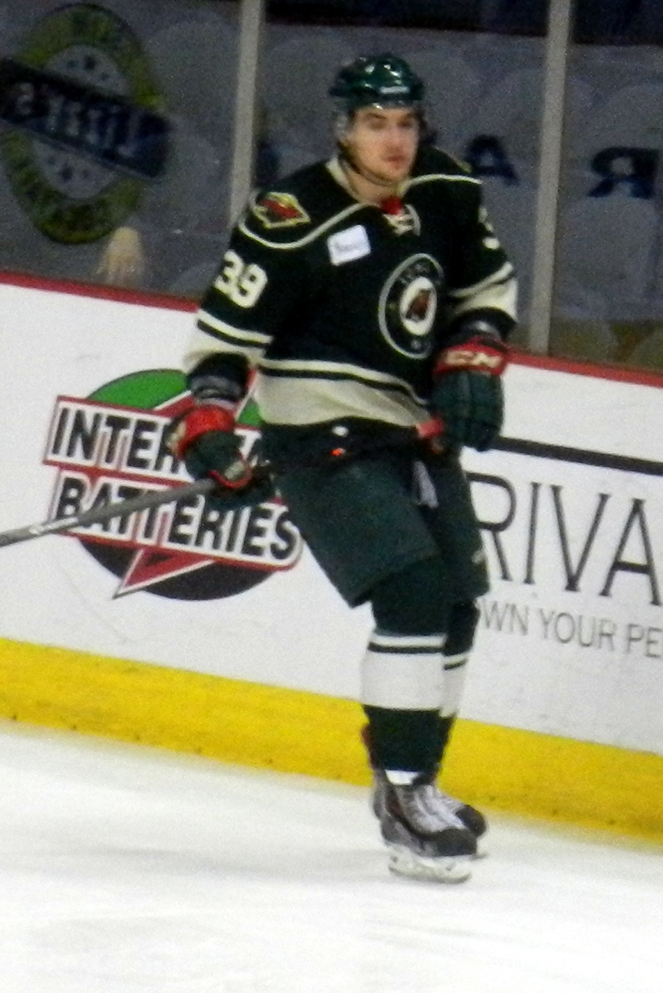 Kurtis Gabriel playing for hte American Hockey League's Iowa Wild